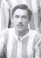 Finnish international footballer Jalmari Holopainen. Cropped from File:HJK_champions_1911.png